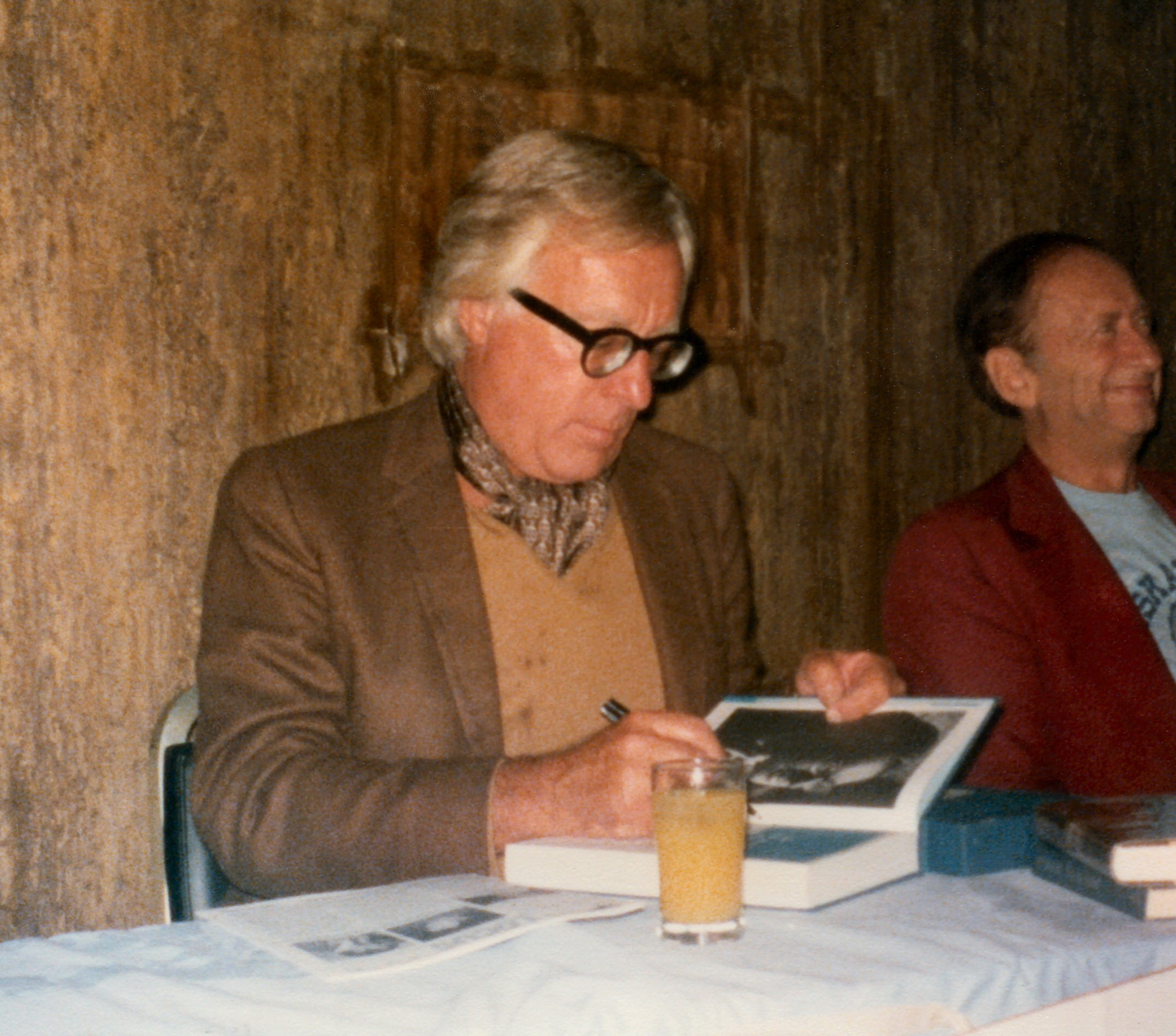 World Fantasy Con III 1977 Ray Bradbury Signing Next to Robert Bloch